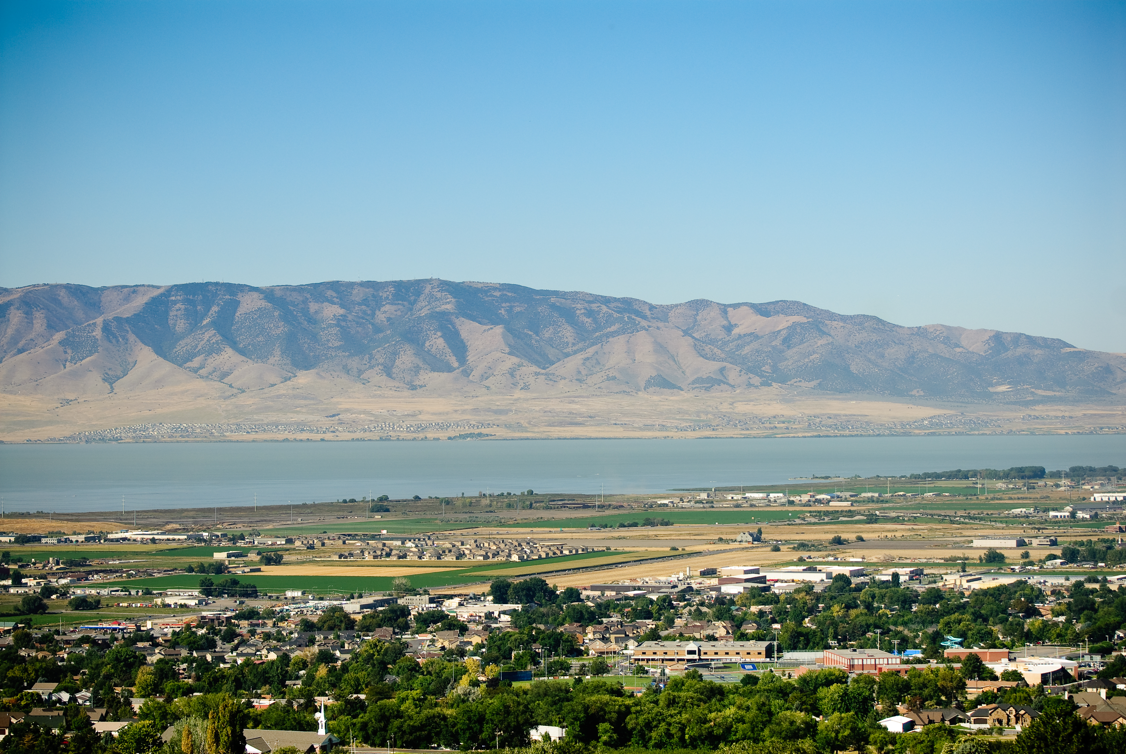 Looking west from the foothills of the Wasatch Front, above Pleasant Grove, overlooking the north arm of Utah Lake.The northeast flank of the Lake Mountains, shows the following small named canyons: (from left-(south)): Limekiln Canyon, Losee Canyon, Clark Canyon, Israel Canyon, and Lott Canyon. (Reformation Canyon, off photo-right?)